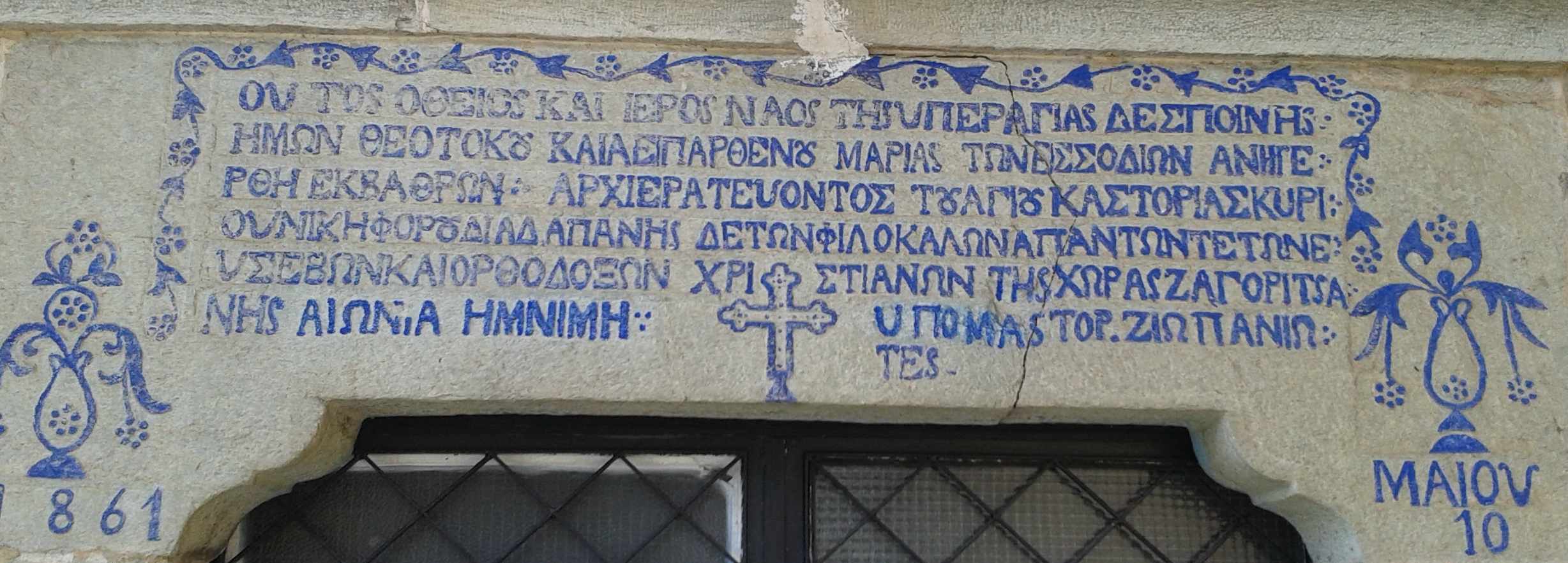 Inscription in Vasileiada Church